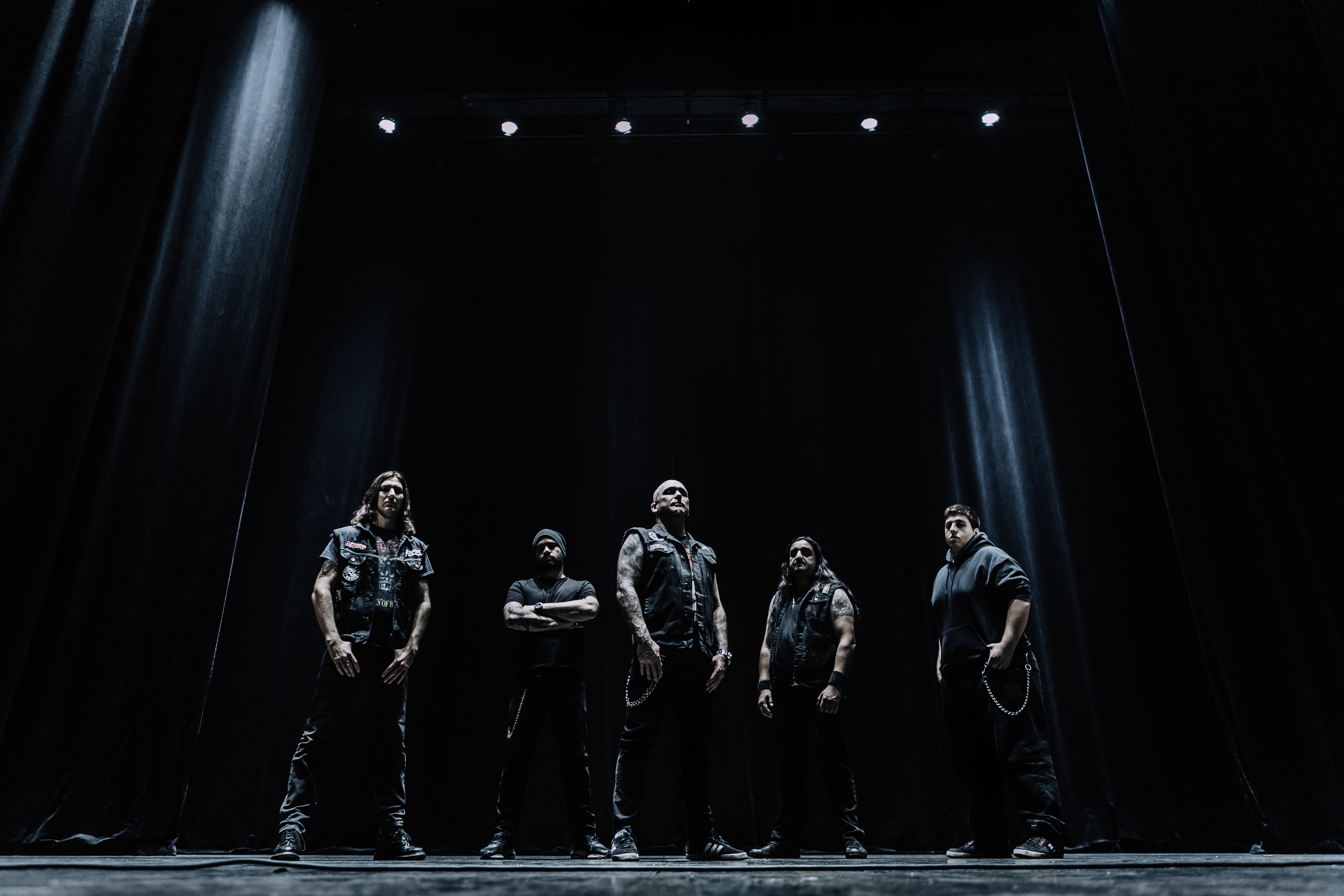 Evelina Szczesik from EveR Vision Art will send you an email with providing info that she is the owener of this new Nightrage photo.